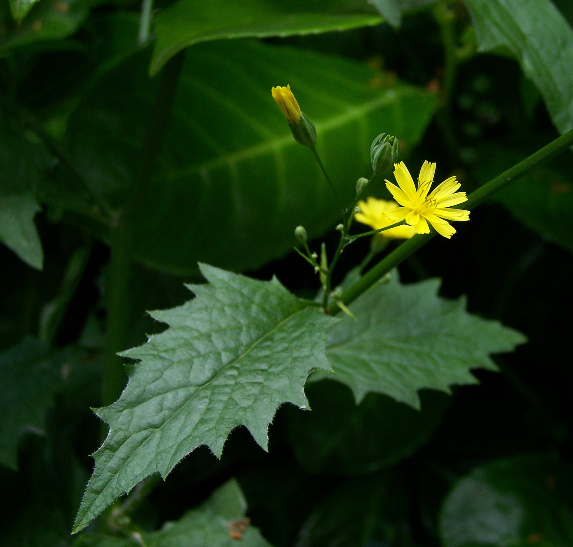 Species: Lapsána commúnis L. – common nipplewort. Height: 14.5 dm Length of leaf: 1.9 dm